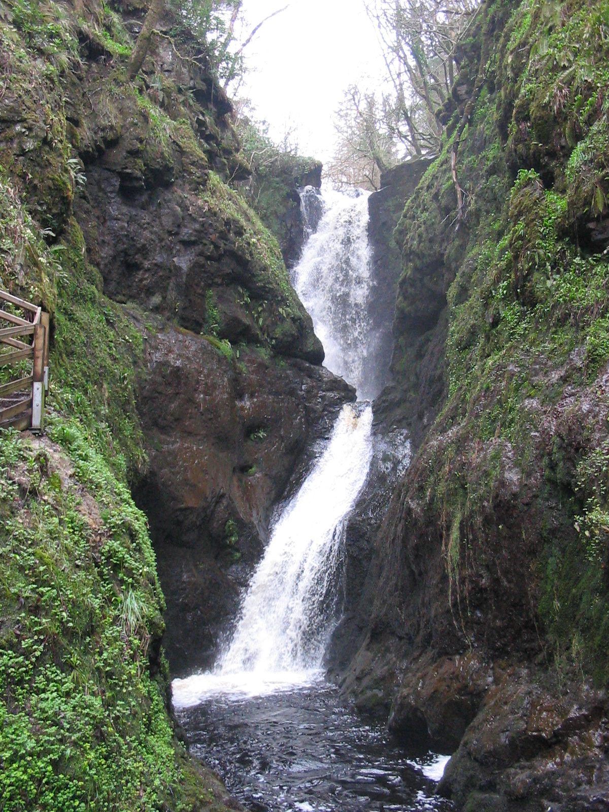 A waterfall in Glenariff Forest Park in the Antrim Hills, Northern Ireland